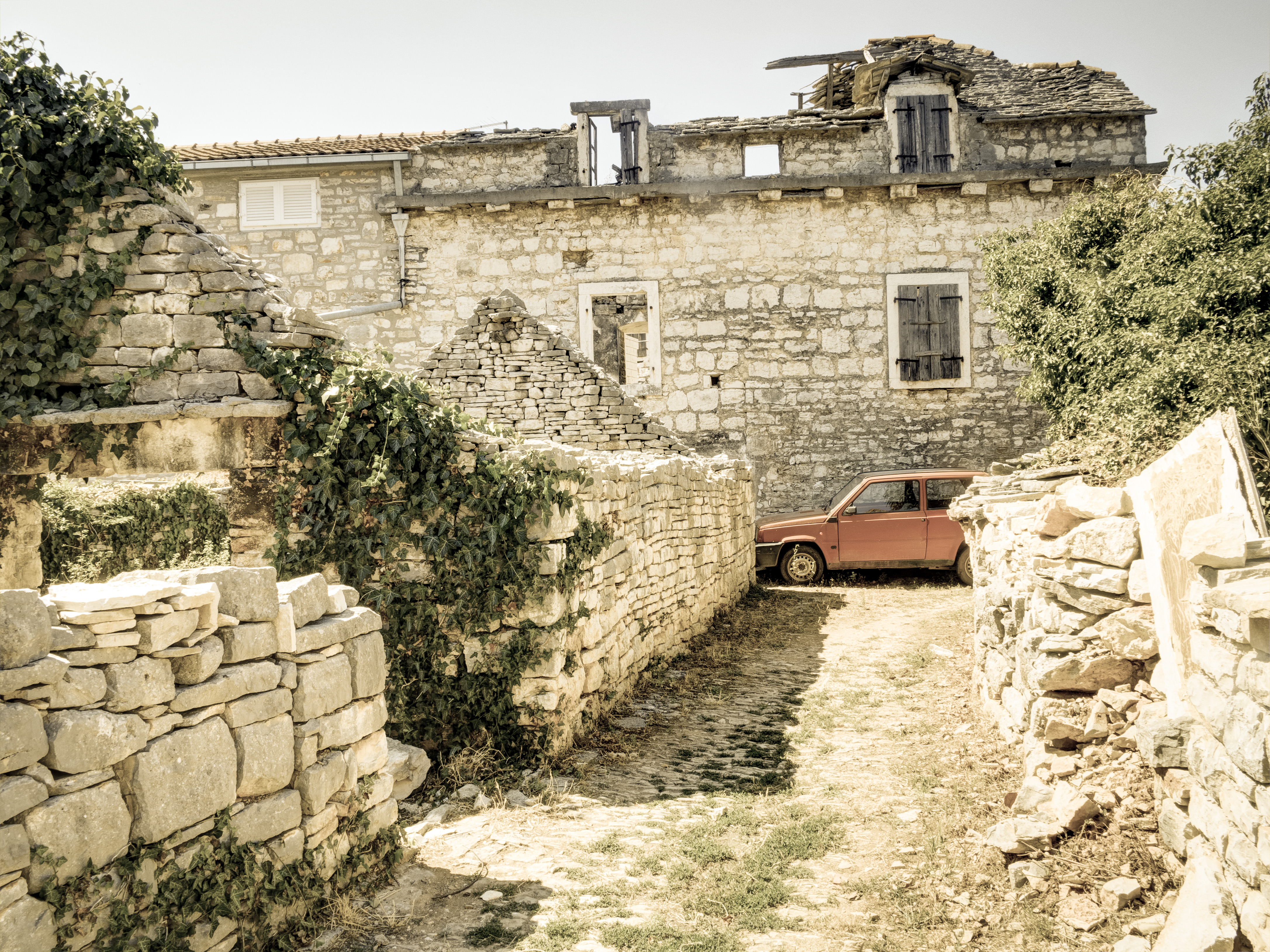 Old limestone houses, some still covered with stones in Grohote on the island Šolta / Croatia / Adriatic Sea. Homes of this size come from the period around 1900, when the money of emigrants led to a construction boom on the island. During this time, most multi-storey houses were built. These homes are currently possesses a poor quality housing. They are heated in winter hardly. The timber roof trusses with the typical stone roofs is usually of inferior quality. A restoration is very expensive, so the islanders prefer to build new.